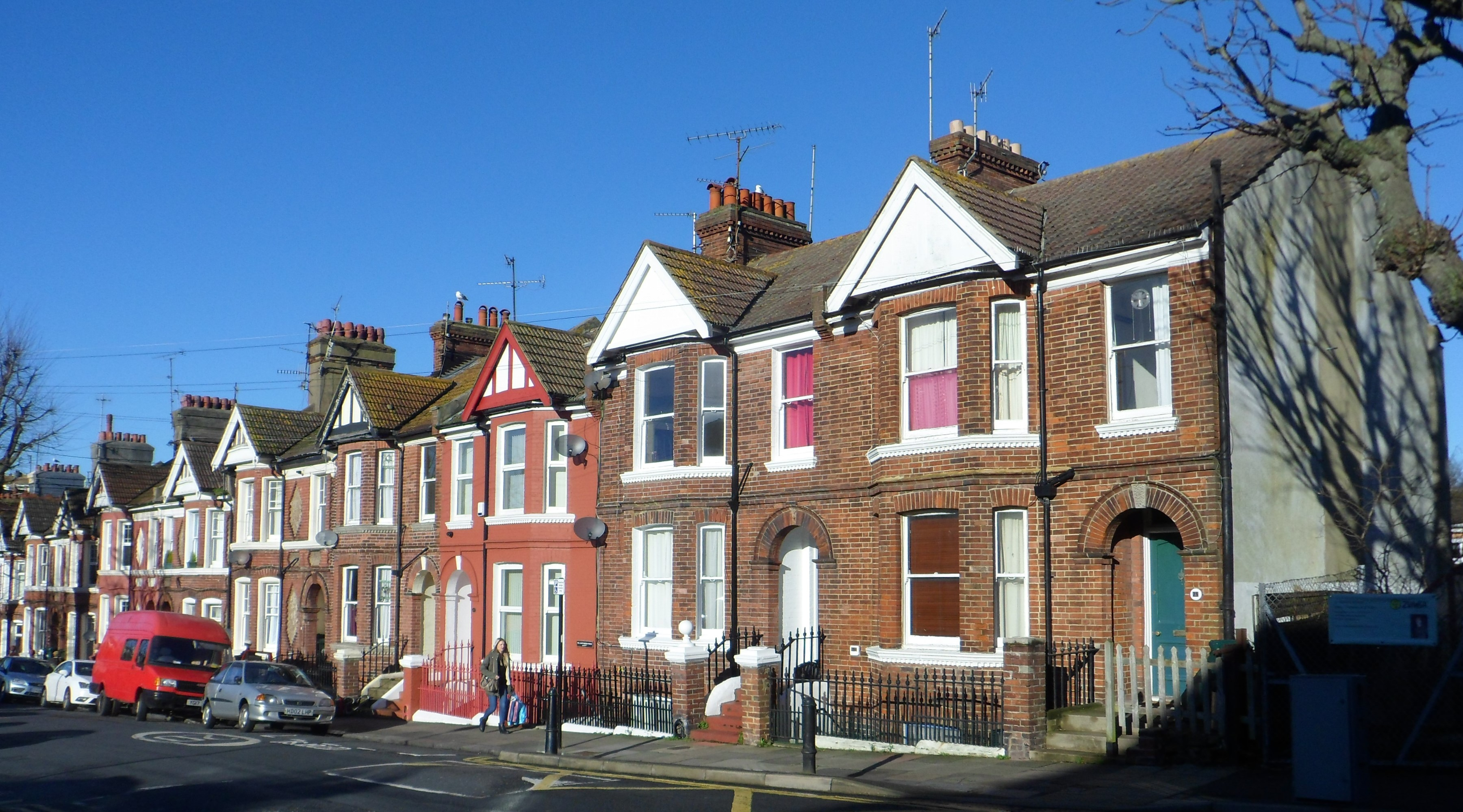 Housing on the north side of Hartington Road, Brighton, City of Brighton and Hove, England. This red-brick housing dates from the 1880s and 1890s.